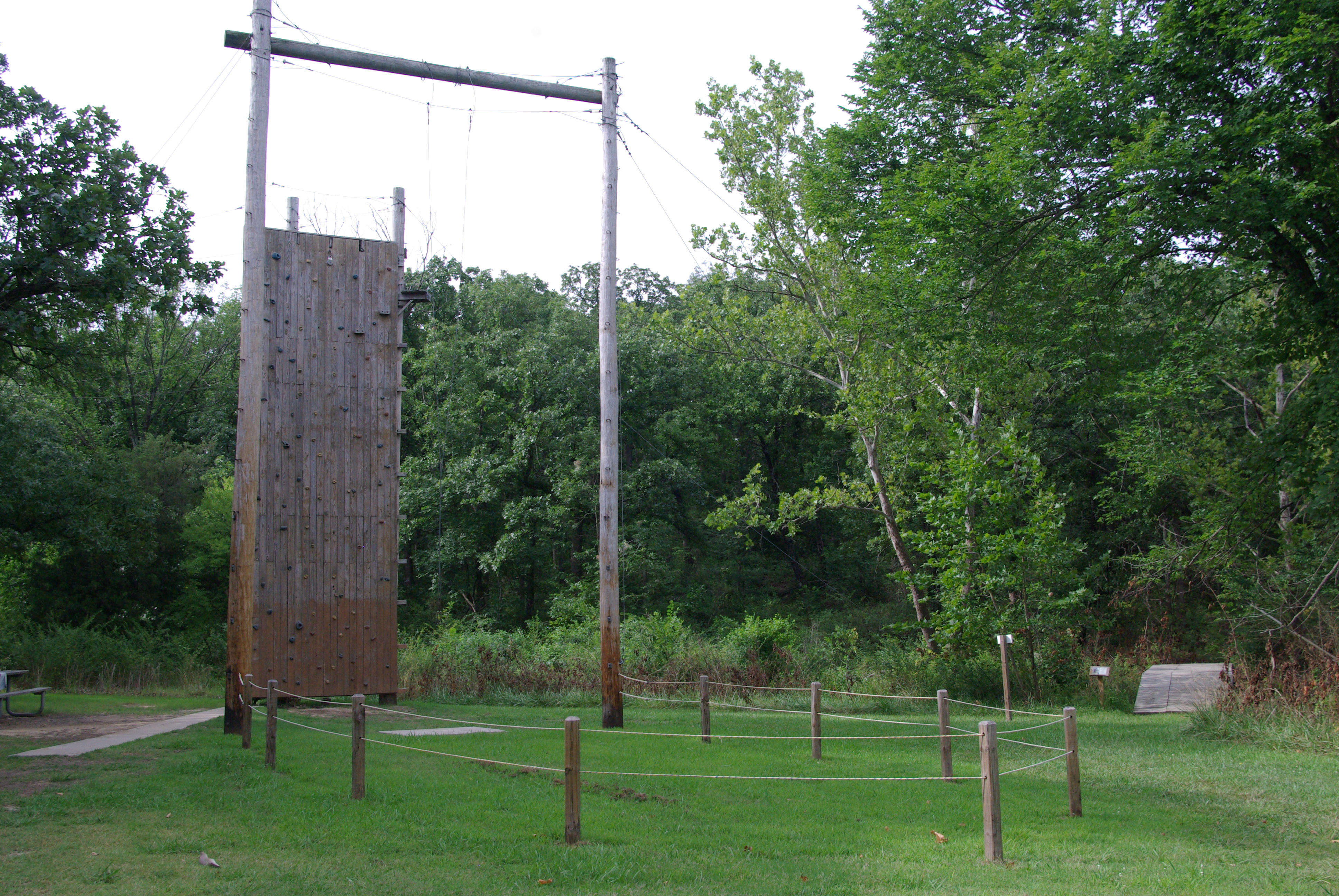 Rock wall at Camp Loughridge